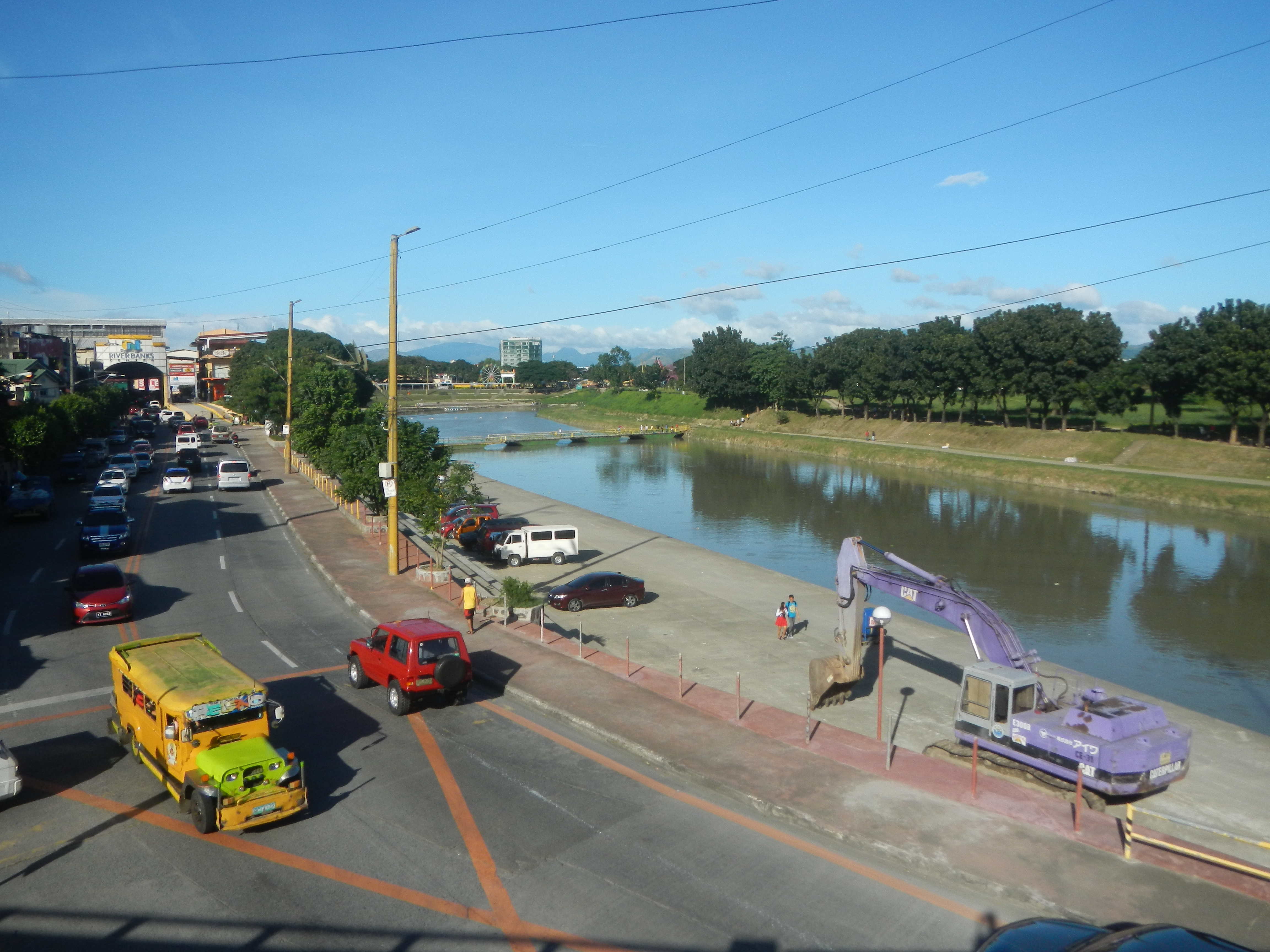 List of barangays of Metro Manila, List of landmarks and attractions of Marikina Barangays of Marikina Barangays Calumpang, Marikina and in front of Barangka (Marikina), Marikina City Marikina River Marikina River Park under the Marikina River Park Authority, 1993 system of parks, trails, open spaces and recreation facilities along an 11-kilometre (6.8 mi) stretch of the Marikina River, Carabao statues along J. P Rizal Street Tayug Street M. A. Roxas Street (Note: Judge Florentino Floro, the owner, to repeat, Donor Florentino Floro of all these photos hereby donate gratuitously, freely and unconditionally all these photos to and for Wikimedia Commons, exclusively, for public use of the public domain, and again without any condition whatsoever).